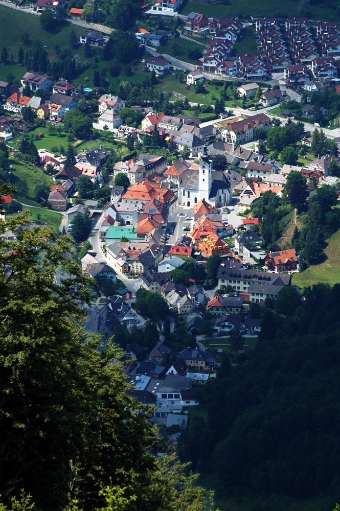 Ybbsitz as seen from nearby mountain Prochenberg (1123 m) in Lower Austria.